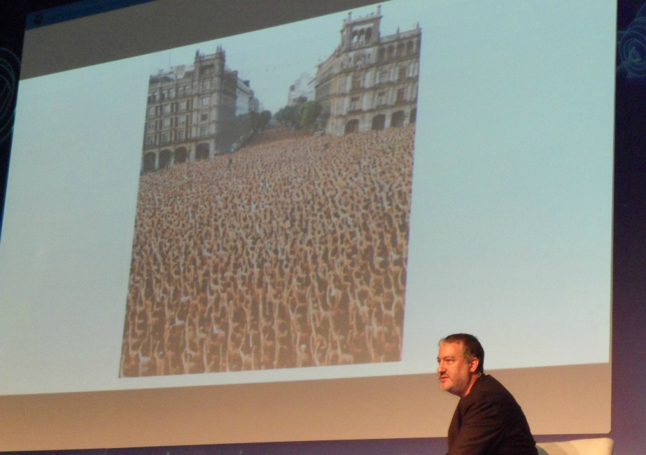 Conferencia por parte de Tunick.